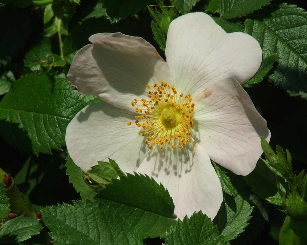 Rosa corymbifera on the Middle Rhine in Germany